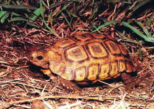 Adult male Natal Hinged Tortoise. Kinixys natalensis. KwaZulu Natal. South Africa.